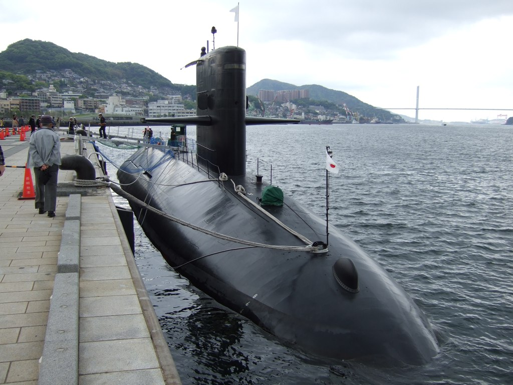 JMSDF training submarine Fuyushio (TSS-3607) at Nagasaki. Fujifilm FinePix F30